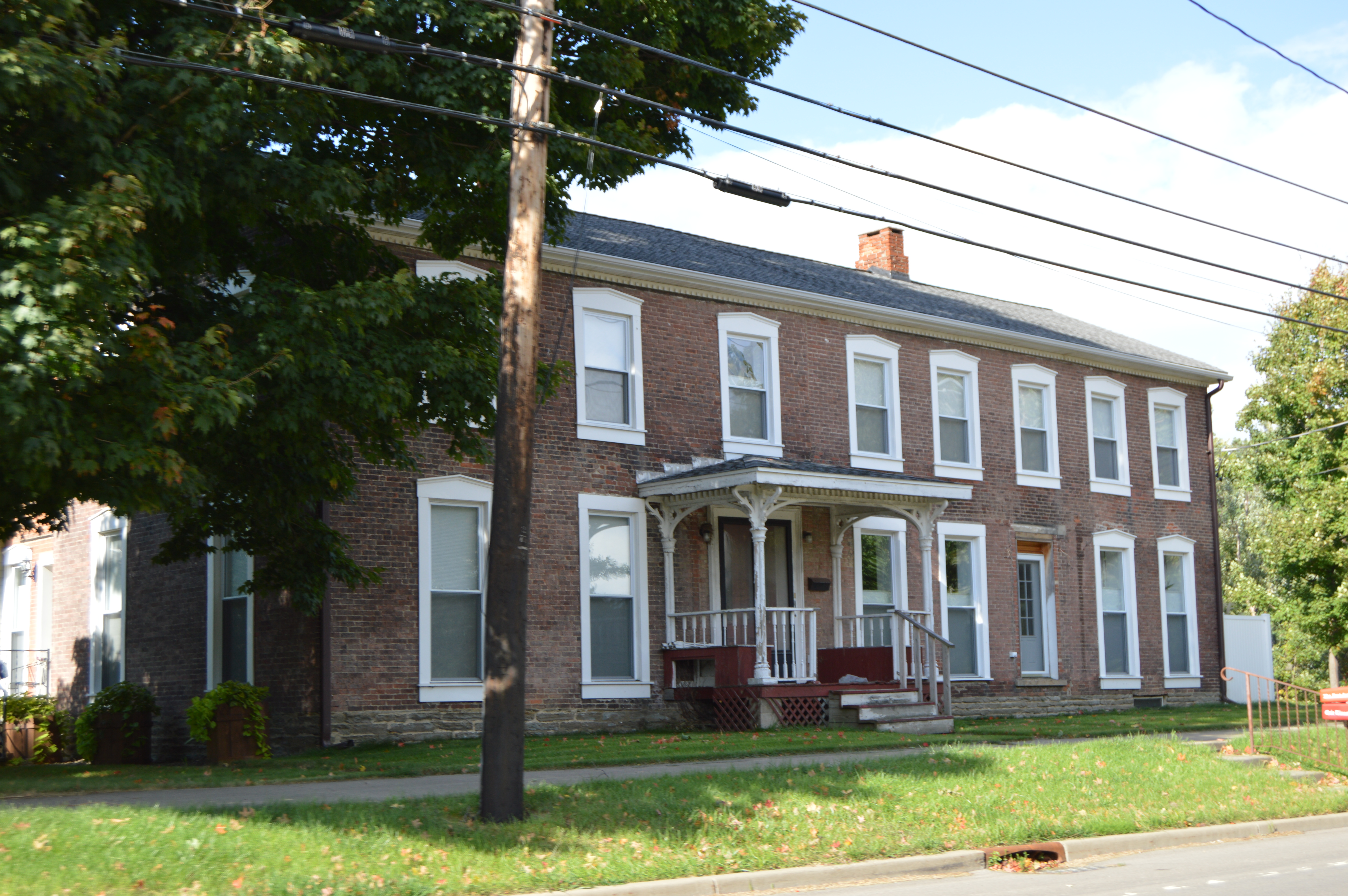 Front and western end of the Reuben Wright House, located at 309 E. Main Street (U.S. Route 20) in Westfield, New York, United States. Built in 1830, it is listed on the National Register of Historic Places.